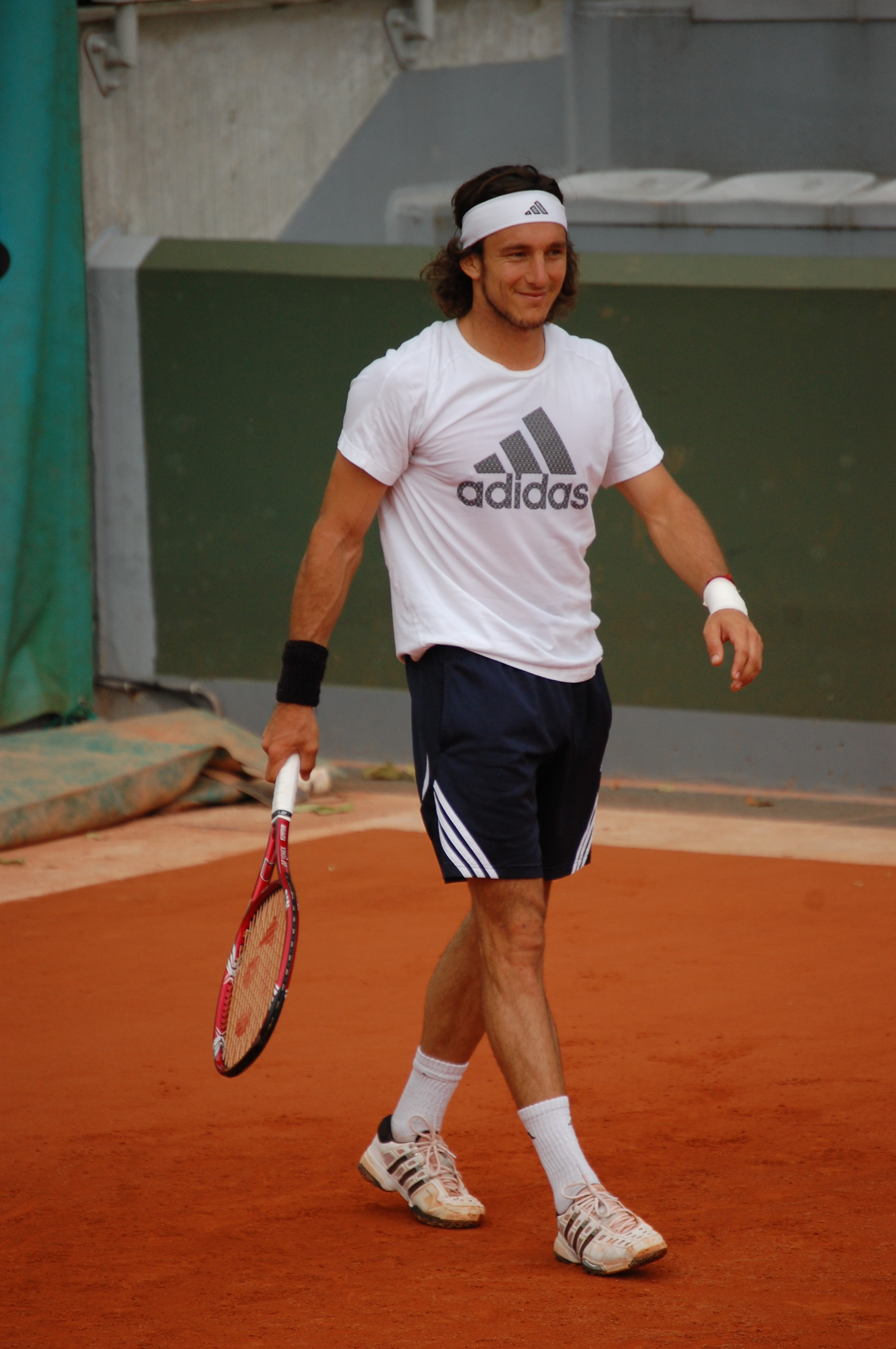 Juan Monaco training in Roland Garros during 2009 French Open